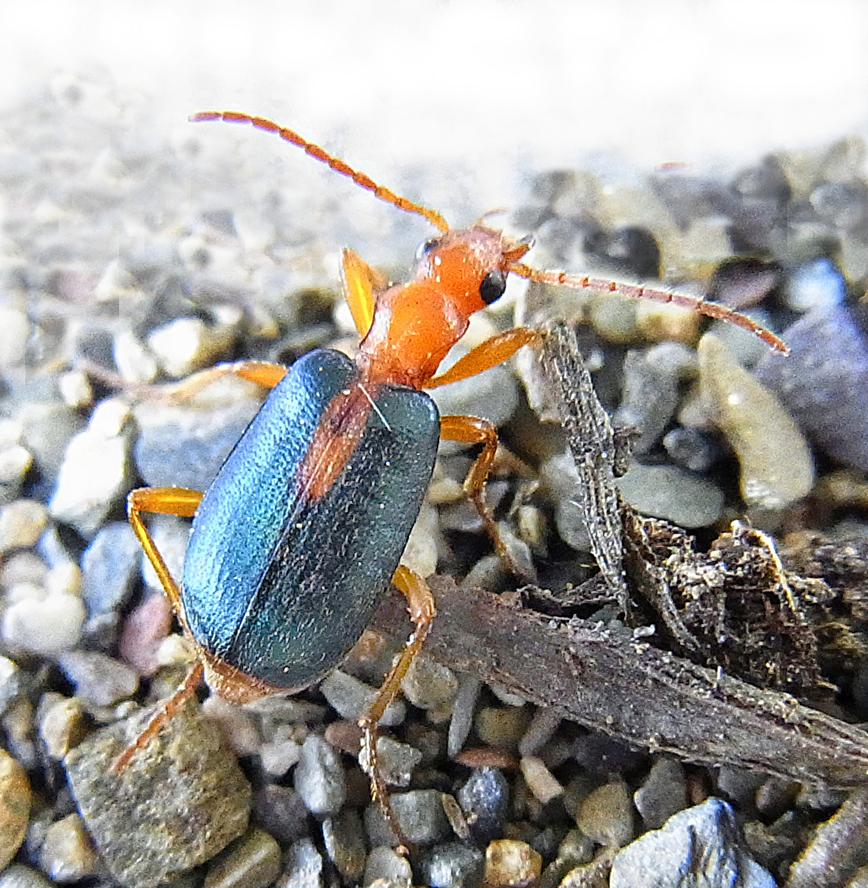 Brachinus sclopeta from Spain, Catalonia, southeast of Figueres, at 2011-04-26